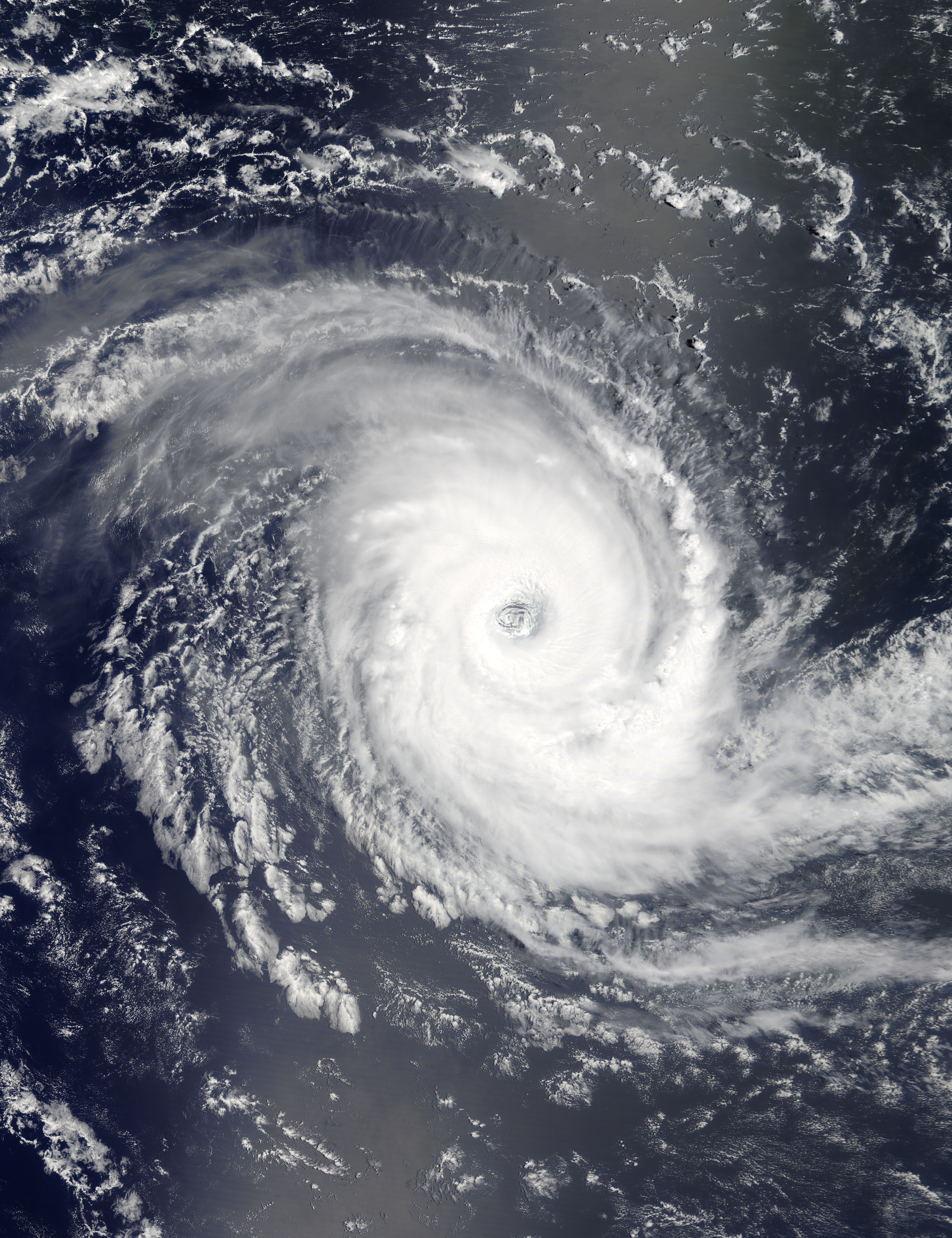 Tropical Cyclone Cebile (07S) in the South Indian Ocean on January 31, 2018.